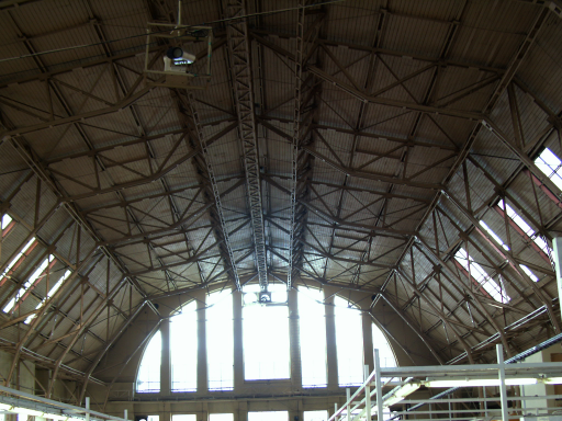 Roof of an hall of the central market at Riga, Latvia